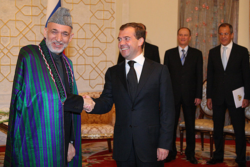 DUSHANBE. With President of Afghanistan Hamid Karzai.